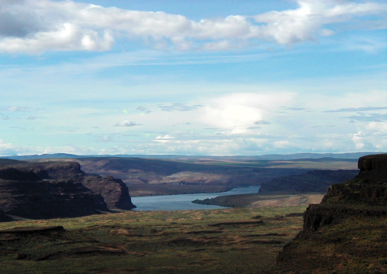 Saturday afternoon at the 2006 Sasquatch Music Festical at the Gorge Amphitheater, in George, Washington. Yes: George, Washington. It was warm and sunny, with only thin, harmless clouds in the sky.